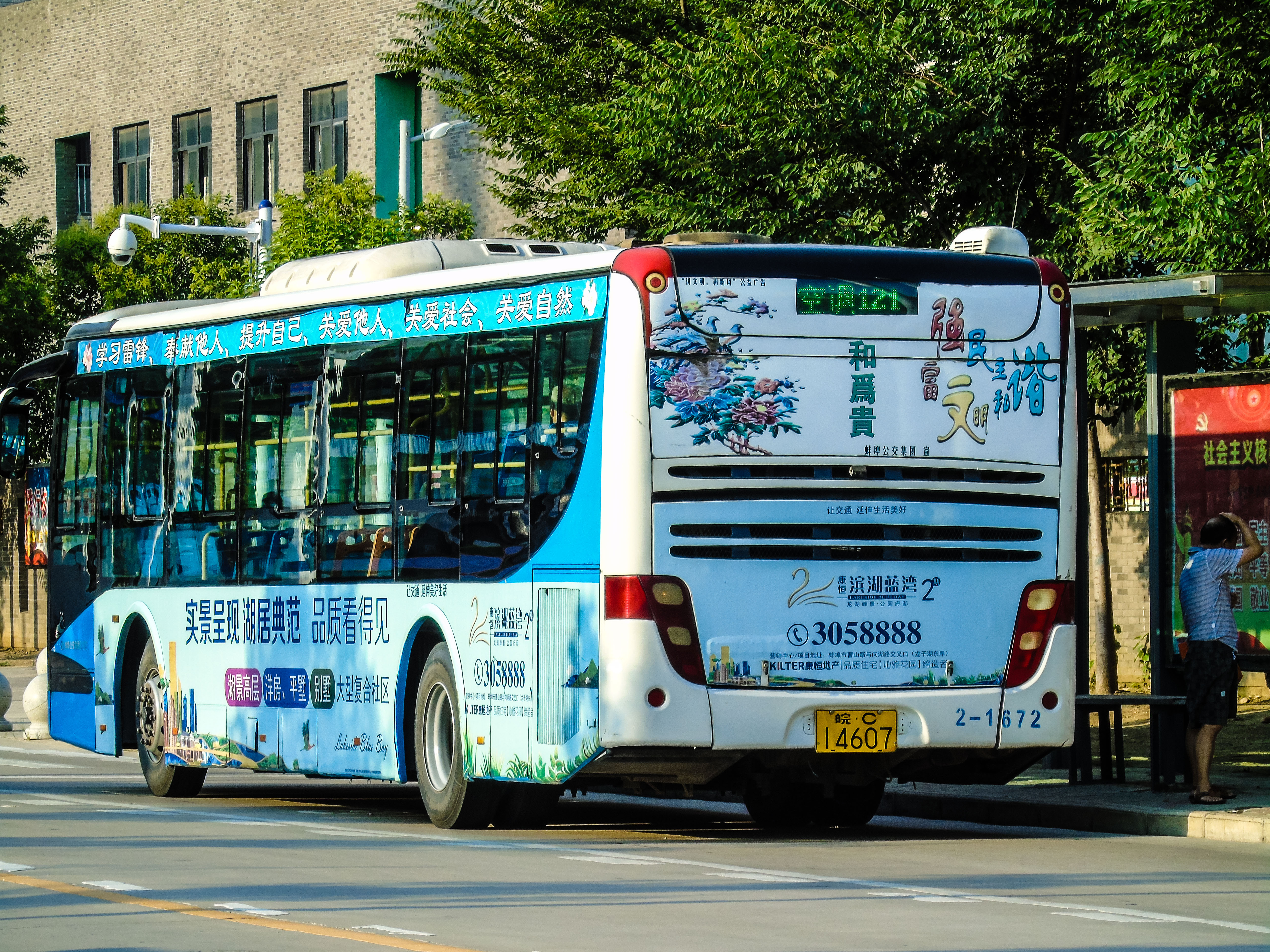 Bengbu Bus No.121 Rear